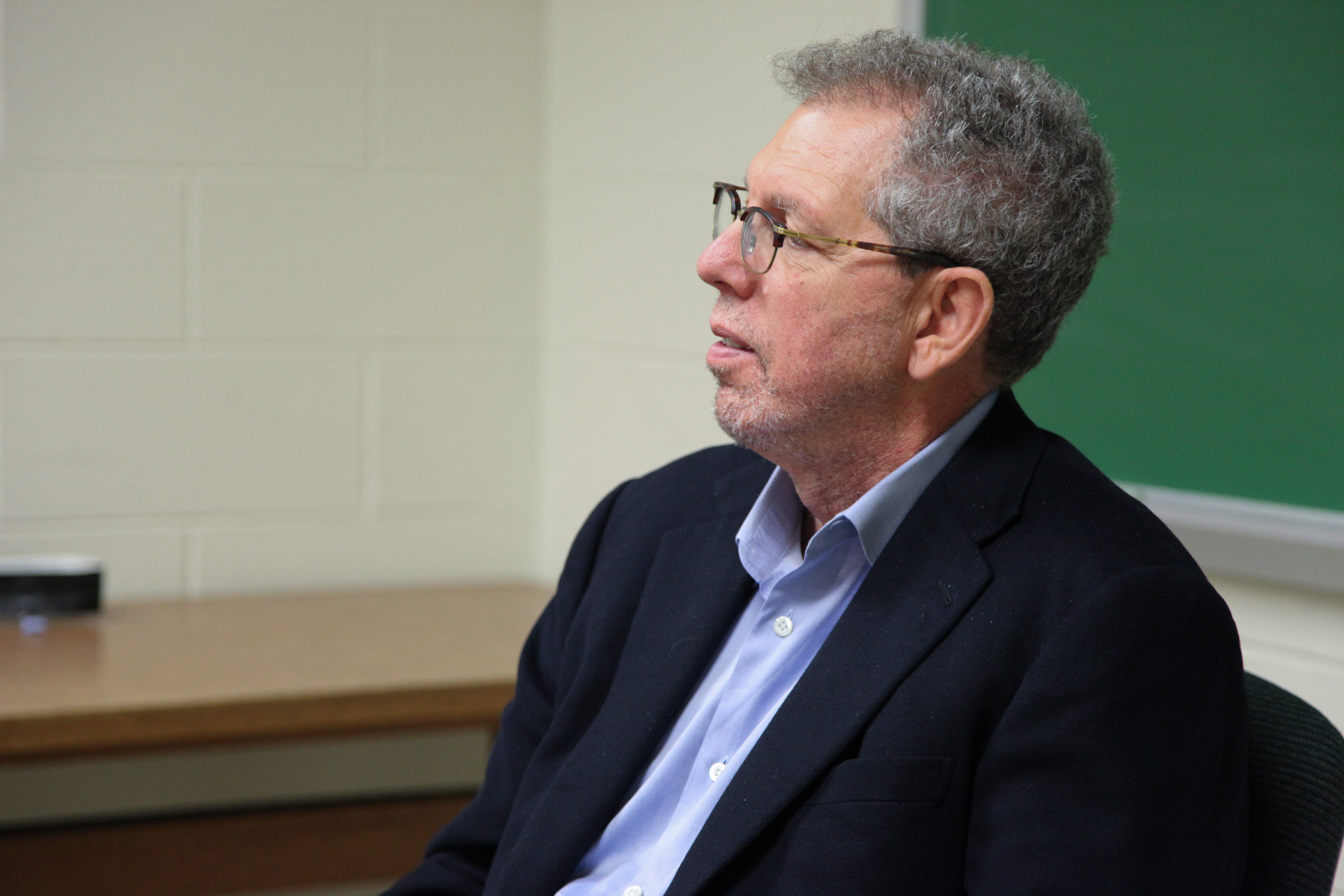 Jeffrey M. Friedman, M.D., Ph.D. Investigator, Howard Hughes Medical Institute Marilyn M. Simpson Professor, Laboratory of Molecular Genetics Rockefeller University "To Eat or Not to Eat : Leptin and the Biologic Basis of Obesity" Alexander Kasser Theater - 8:00 PM Photographer: Jim Ceravolo